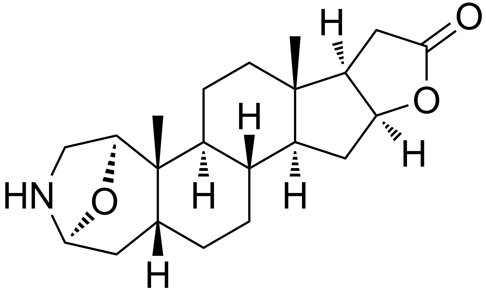 chemical structure of samandaridine